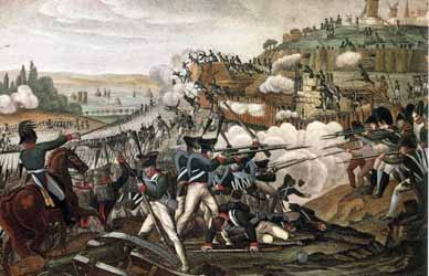 Lifegurad Preobrazhensky Regiment fighting the battle for Paris March 30 1814.